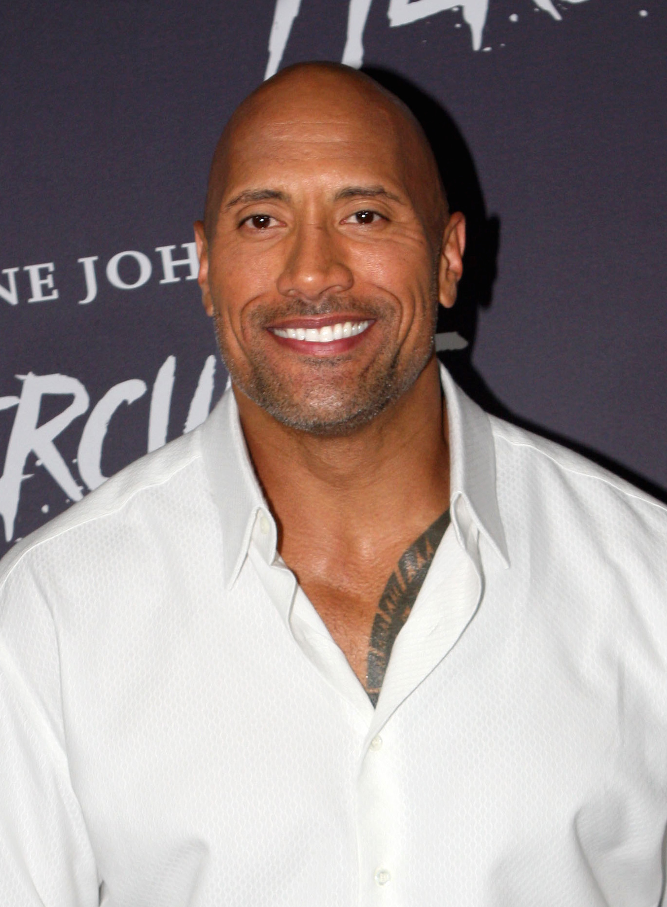 Dwayne Promoting Hercules Movie, Event Cinemas Sydney Australia